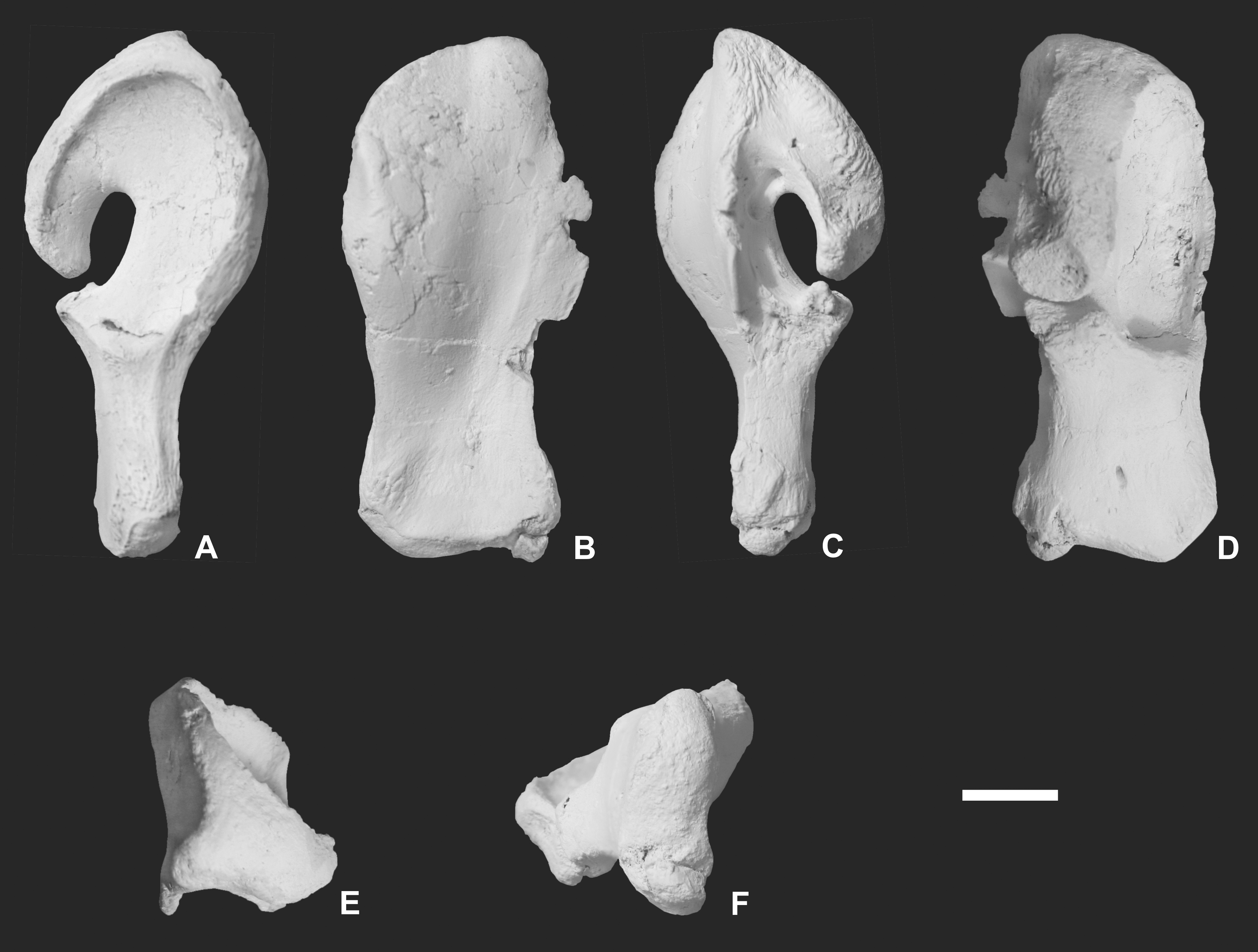 Holotype of Pannoniasaurus inexpectatus. Quadrate (MTM 2011.43.1.) in lateral (A), anterior (B), medial (C), posterior (D), dorsal (E) and ventral (F) views. Scale bar represents 1 cm.